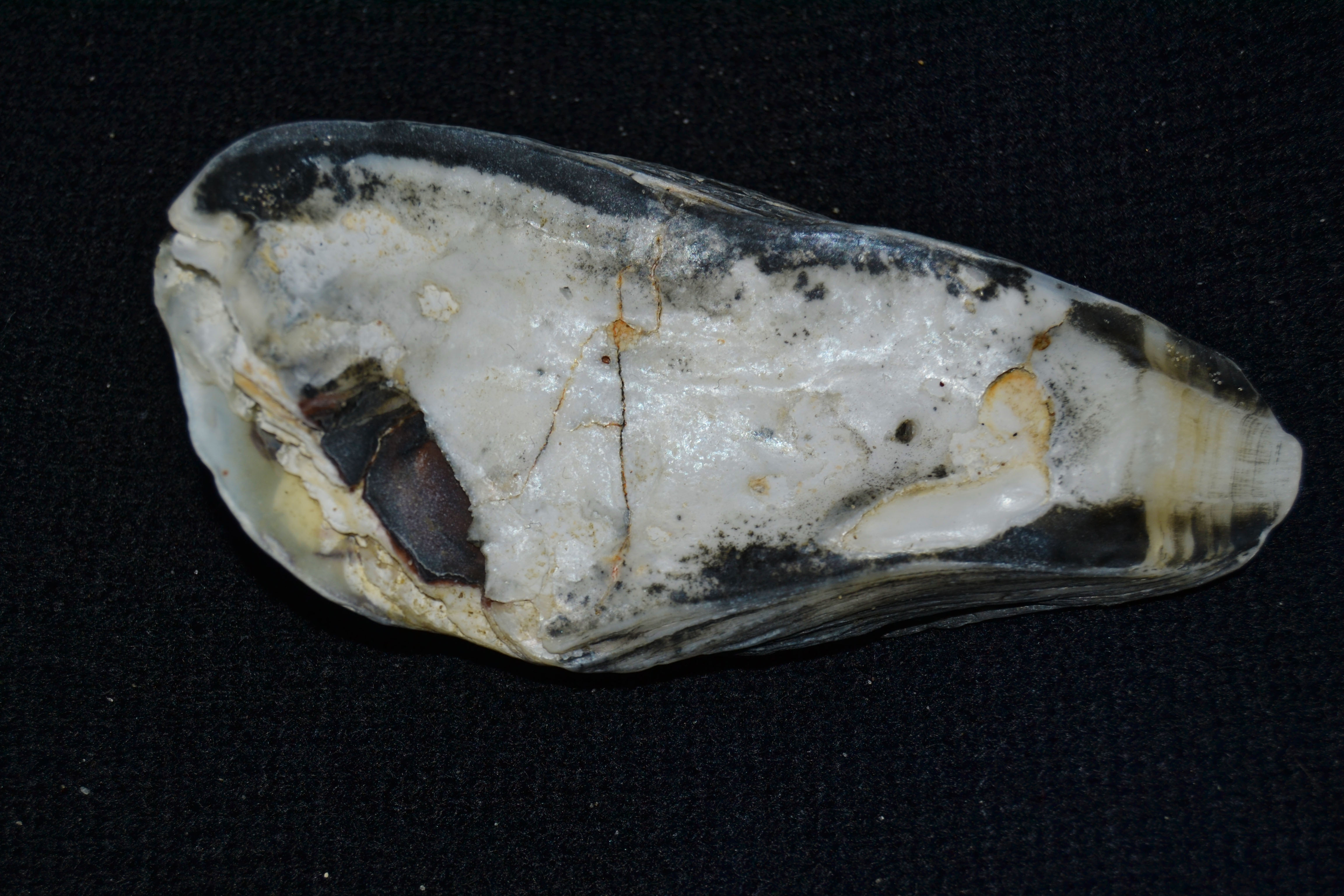 Possibly Subfossil! Hammonasset State Park, Madison, Connecticut